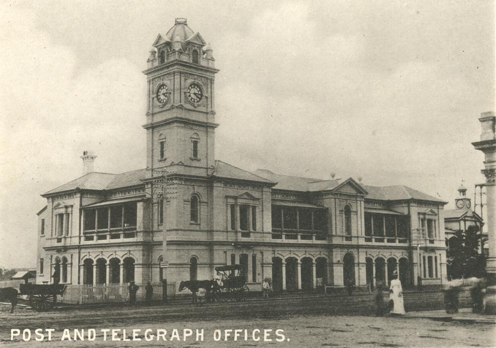 Post and Telegraph offices, Townsville, ca. 1900.